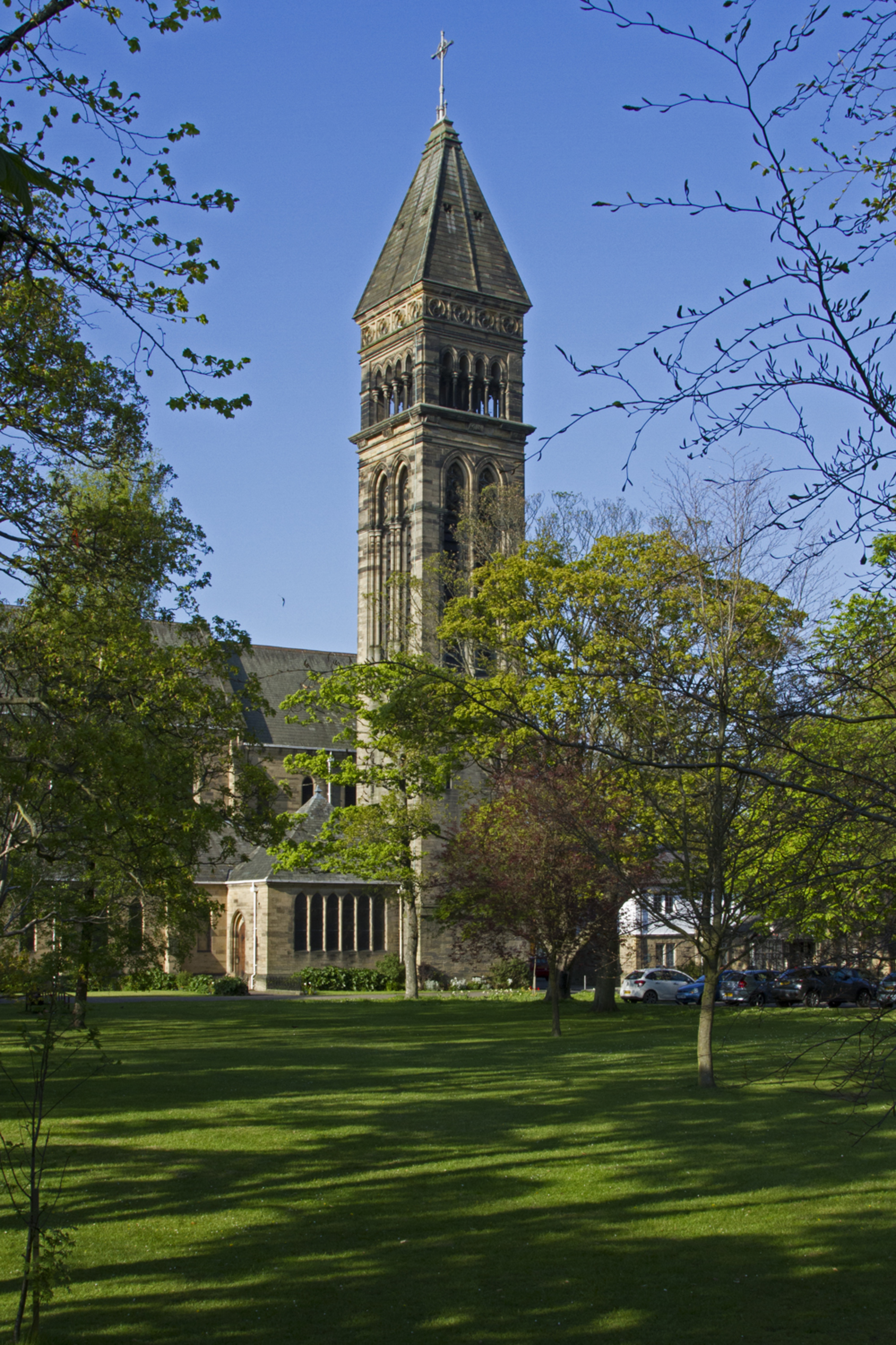 A church with extremely interesting architecture and beautiful lead windows at the east and west ends of the building.